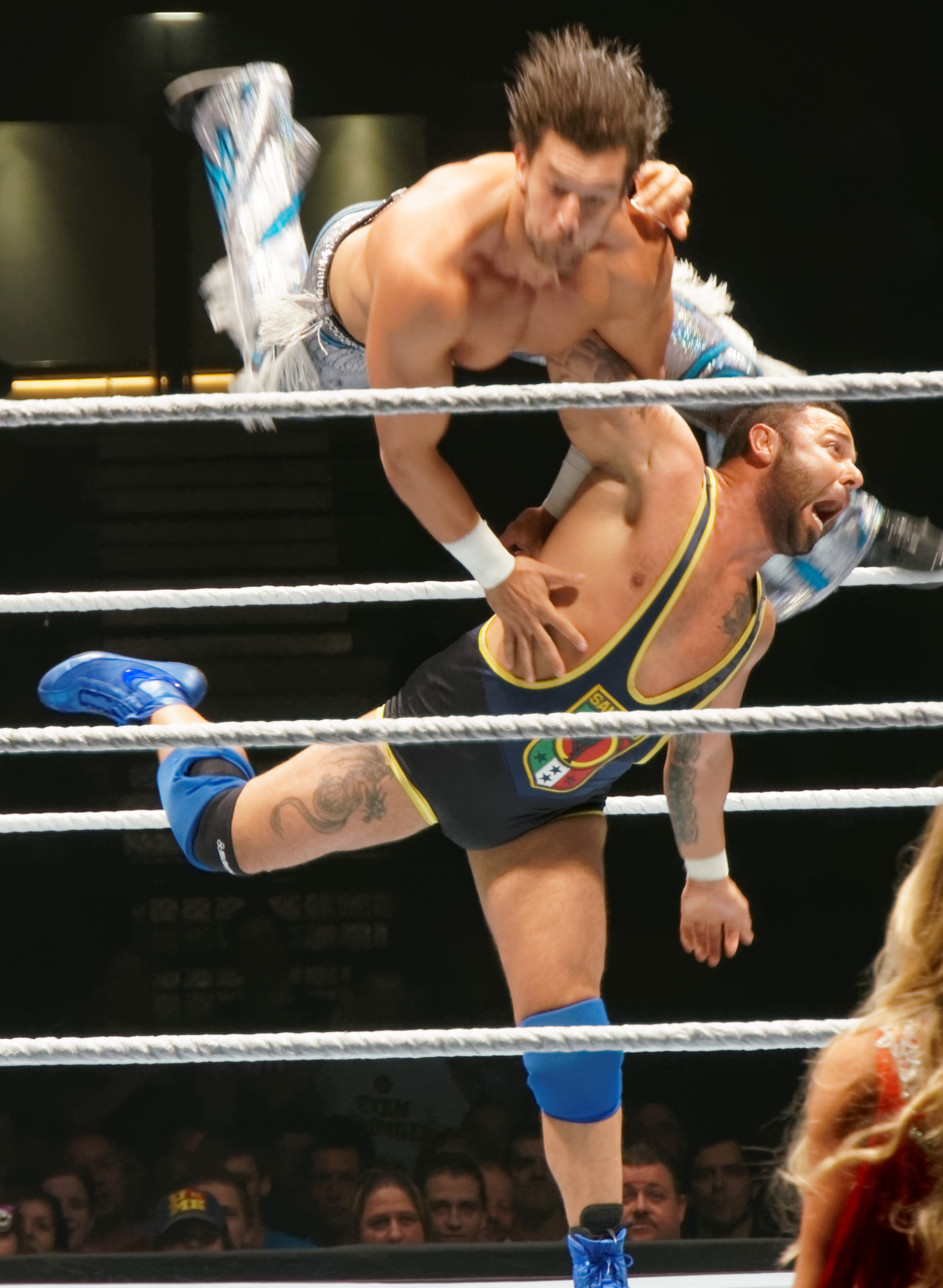 Santino Marella (right) hip tosses Fandango at a WWE house show in Vorst, Belgium on November 8, 2013.